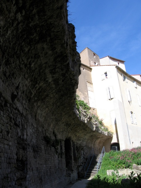 Photo of vault, ruins of Roman amphitheatre, Béziers